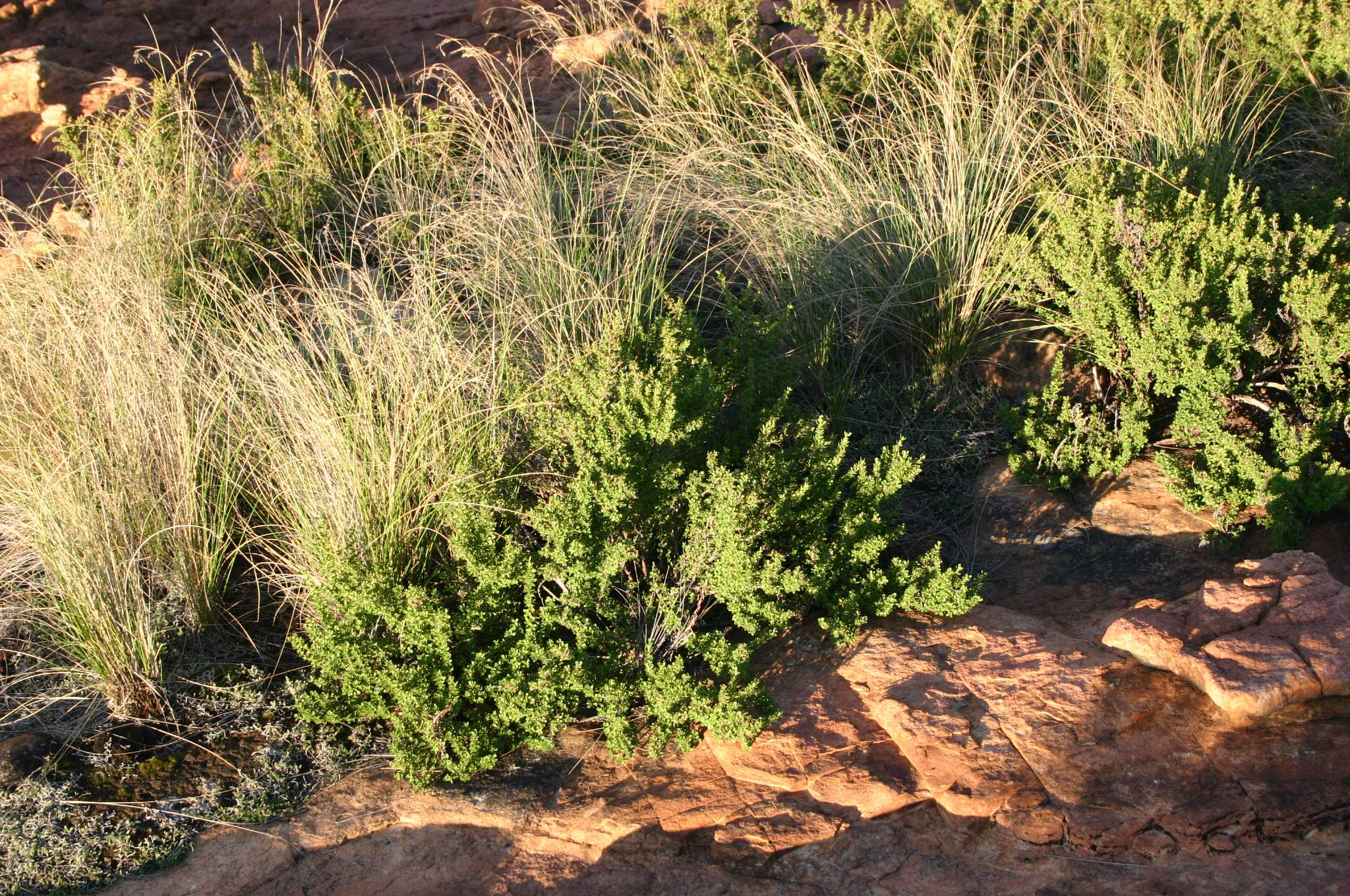 Habit of Myrothamnus flabellifolius during wet season, growing on quartzite with grasslike tufts of Coleochloa setifera (Ridl.) Gilly, Hamerkop Kloof, Magaliesberg, South Africa